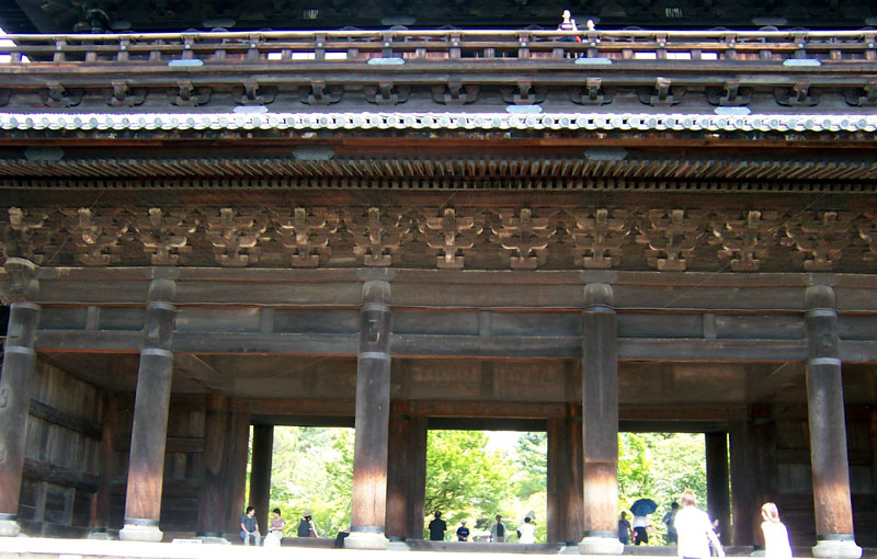 The main gate at Nanzenji temple in Kyoto, one of its famous Zen temples.Nanzenji - main gate